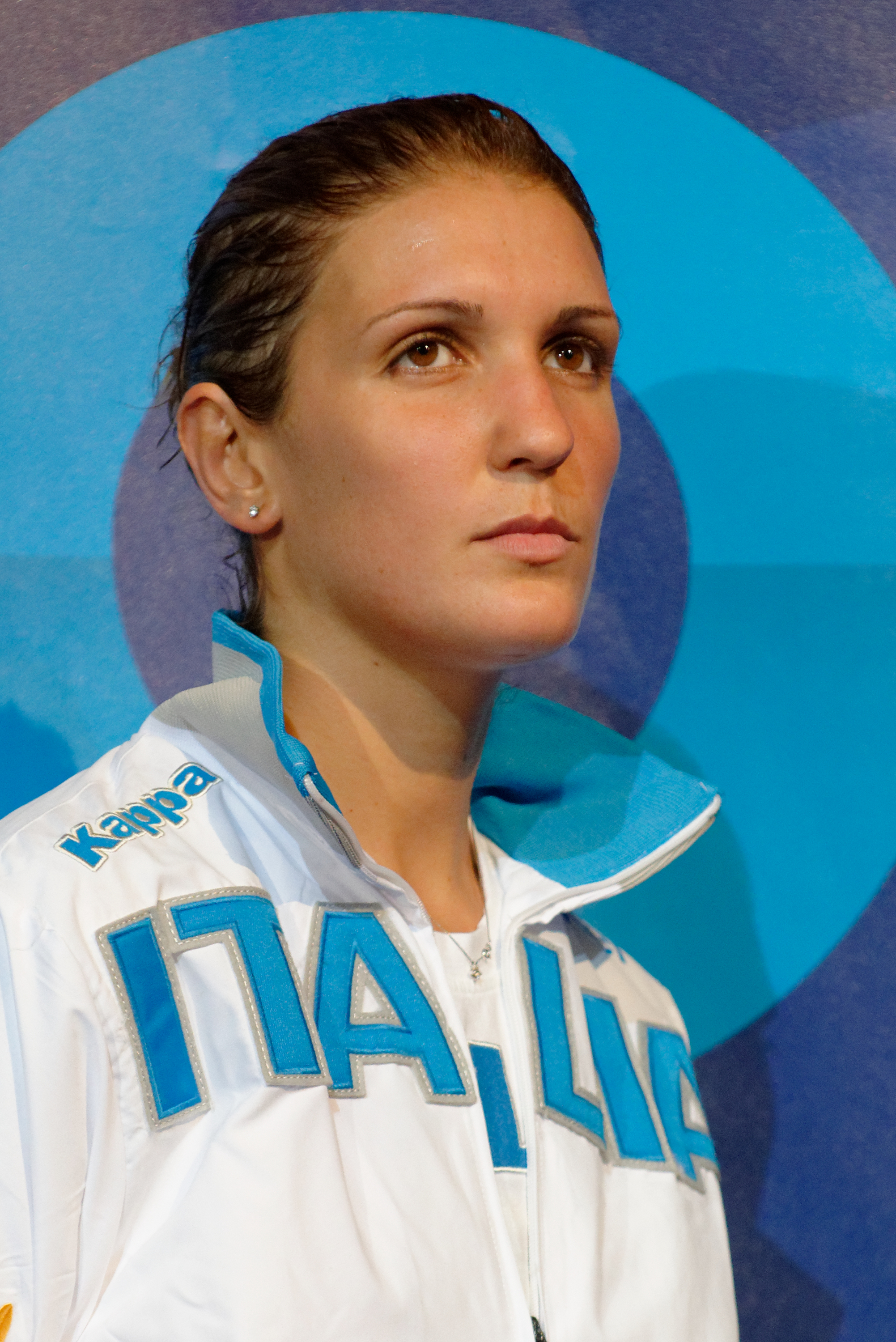 Italy's Arianna Errigo stands on the women's foil podium of the 2013 World Fencing Championships 2013 at Syma Hall in Budapest, 10 August 2013.